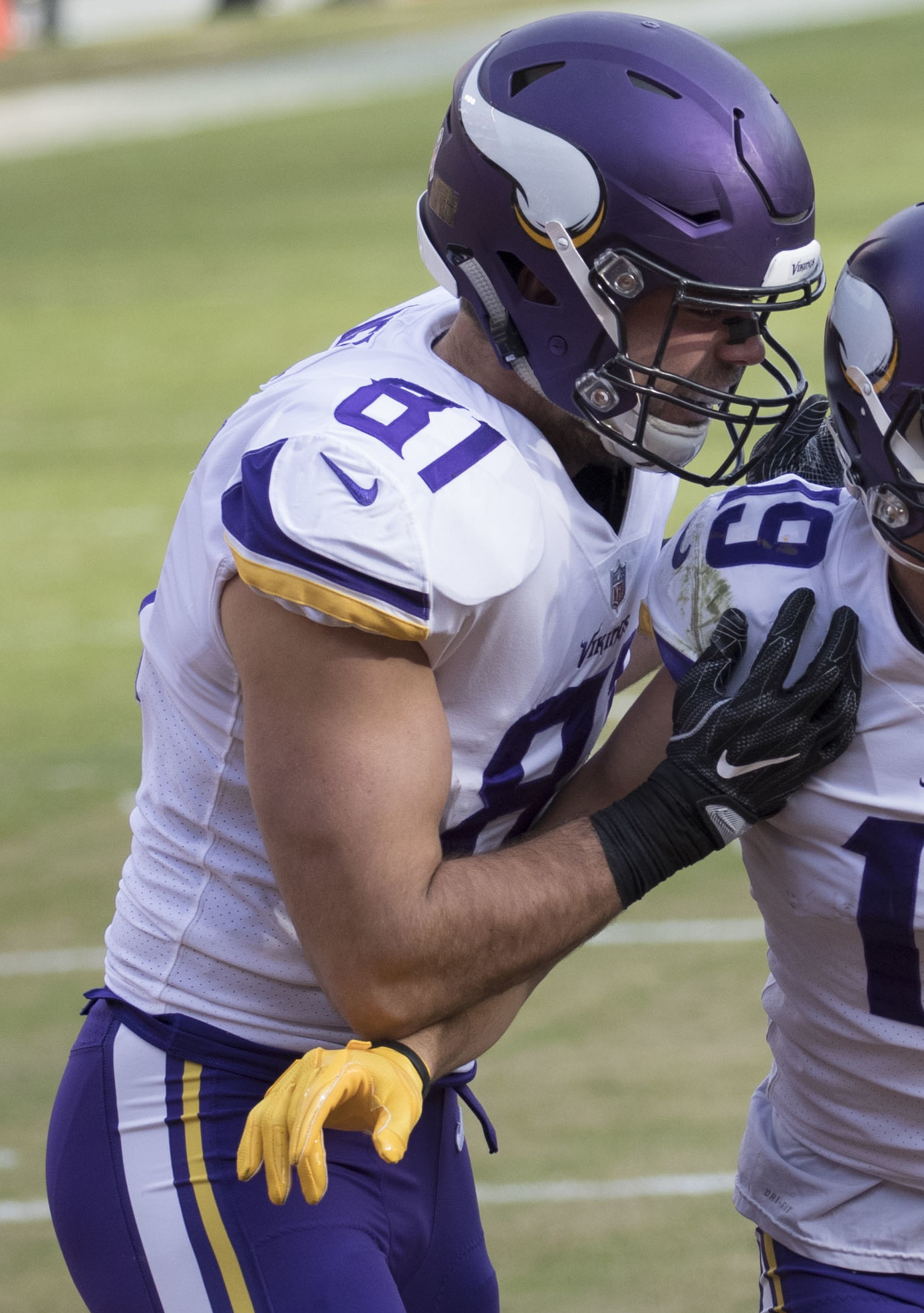 Adam Thielen of the Minnesota Vikings celebrates after scoring a touchdown against the Washington Redskins at FedExField on November 13, 2017 in Landover, Maryland.